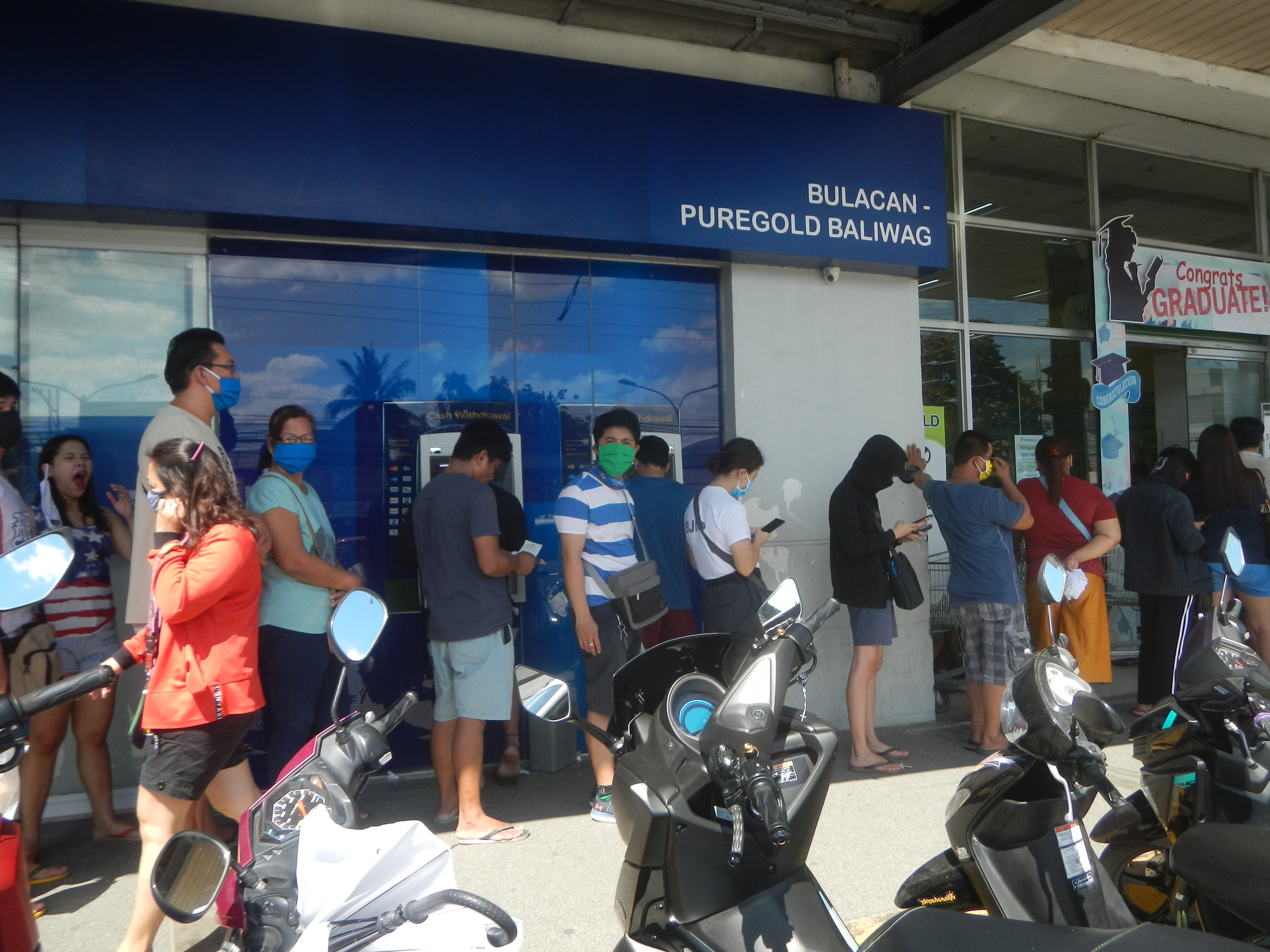 2020 Baliuag enhanced community quarantine (public transport, closed shops-establishments, documents-guidelines-signs) Baluag home quarantine pass is a privilege granted only to 1 household head of Barangay Poblacion, Baliuag, Bulacan, who may buy food or medicine during curfew or lockdown hours and or areas issued by Baliuag Philippine National Police branch or station's Chief under DILG; 2020 Baliuag enhanced community quarantine (lockdown – curfews) 2020 coronavirus pandemic in the Philippines 307 cases 2020 Luzon enhanced community quarantine Lockdown Curfew in Barangay Poblacion 14°57'17"N 120°54'2"E, Baliuag, Bulacan, Bulacan province Baliuag town enhanced community quarantine (lockdown): Convid-19 2020 This category includes Barangays Santo Cristo, Bagong Nayon, San Jose and Poblacion, Baliuag, Bulacan: virtual ghost town - where all schools, stores, malls and shops are closed as announced until further orders; only hospitals, markets, SM hypermart, drug store, convenience stores, Jollibee and McDonald's are open for very limited hours and for take-out, no dine-in; 24 hour curfew is imposed with exceptions of: one member of a family is given a quarantine pass only within a Barangay from or along MacArthur Highway or Manila North Road) Philippine highway network (Note: Judge Florentino Floro, the owner, to repeat, Donor Florentino Floro of all these photos hereby donate gratuitously, freely and unconditionally Judge Floro all these photos to and for Wikimedia Commons, exclusively, for public use of the public domain, and again without any condition whatsoever).